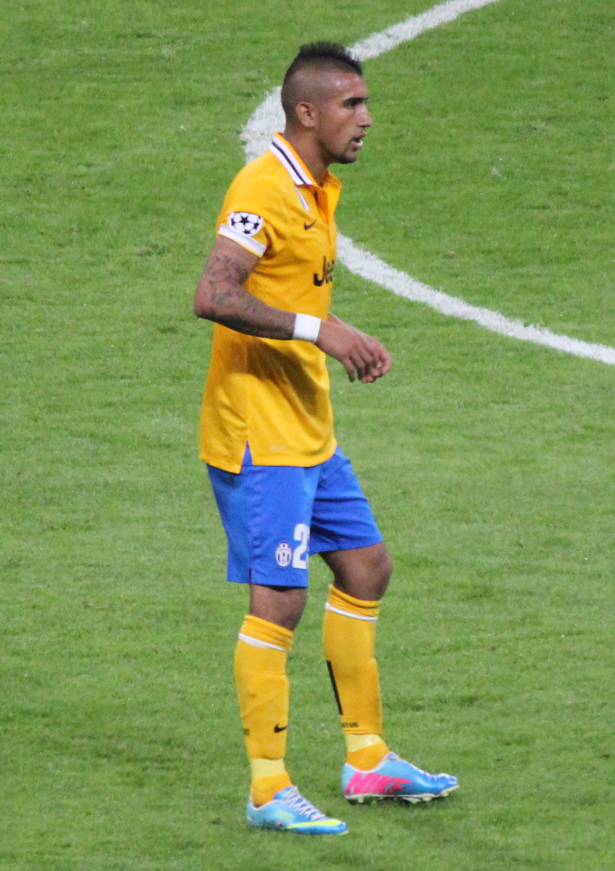 Real Madrid vs Juventus, 24 October 2013 Champions League